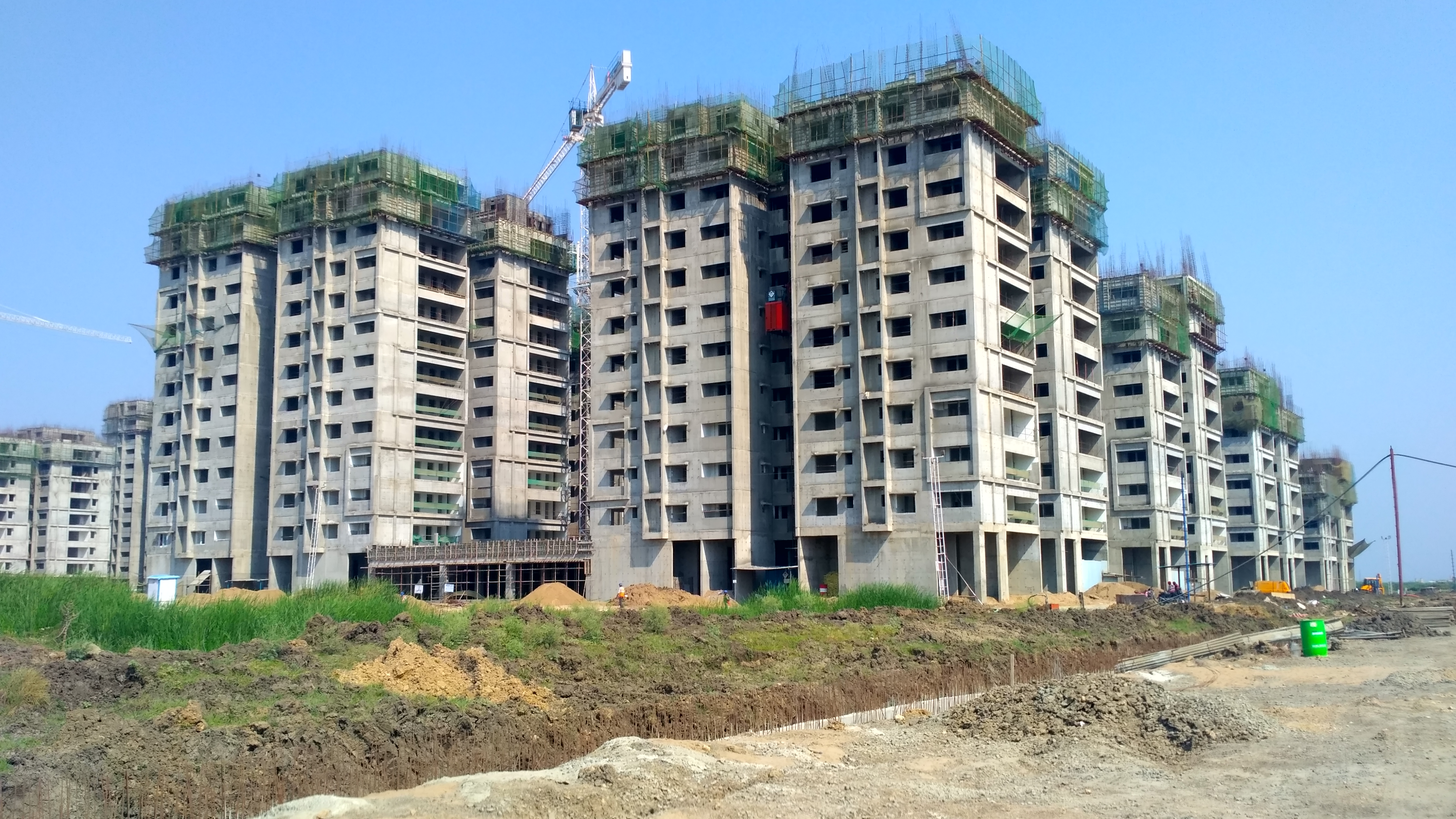 Amaravati is a Green Field city under construction in Indian state of Andhra Pradesh